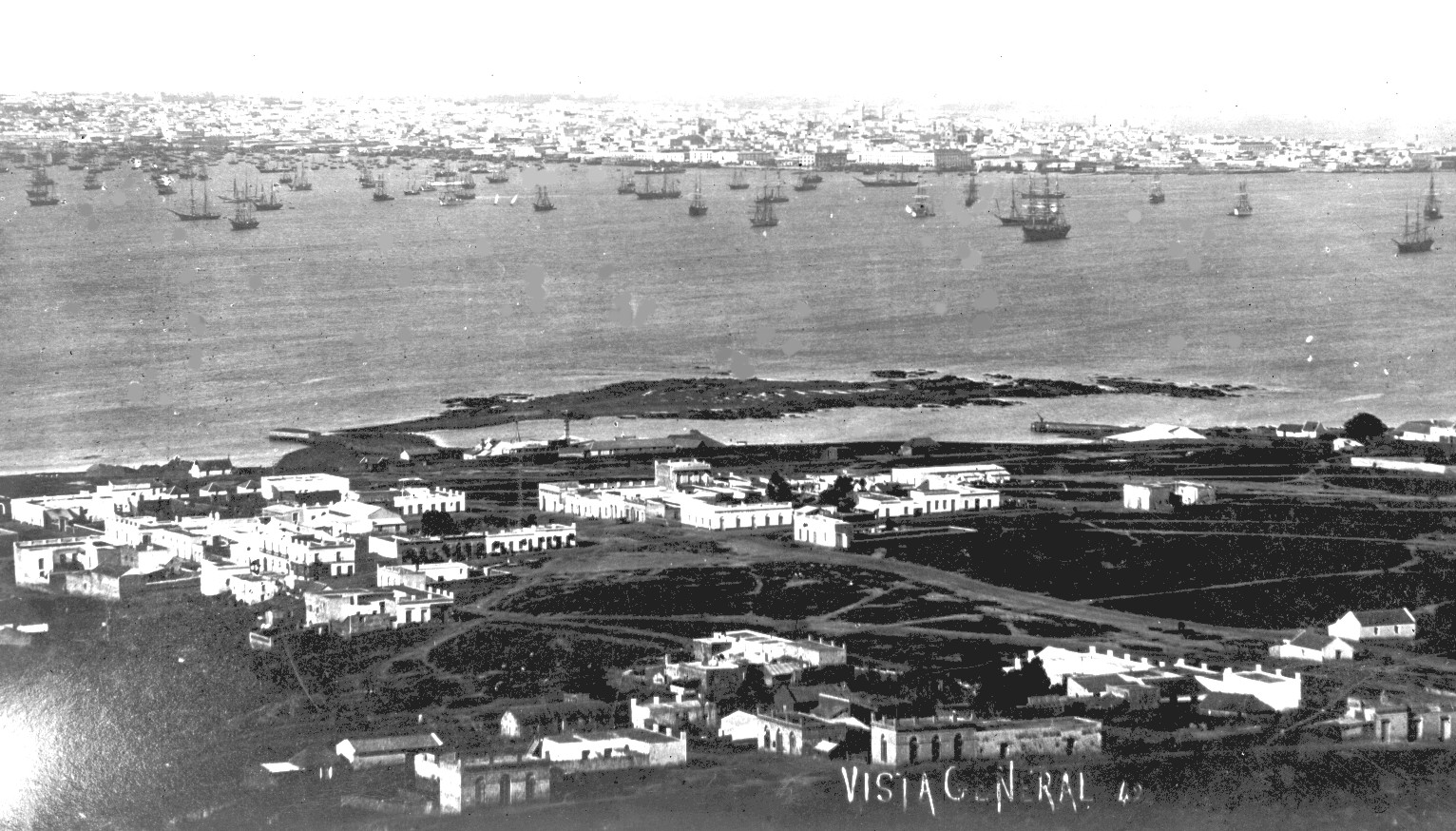 Overview of the Bay of Montevideo and the city from the Hill. Photograph of 1889.